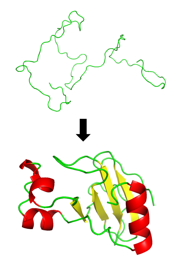 A ribbon diagram illustrating the transition of the protein barnase from an unfolded (top) to folded state (bottom). Folded structure is taken from protein databank (PDB ID: 1BRS) Generated using PyMol.